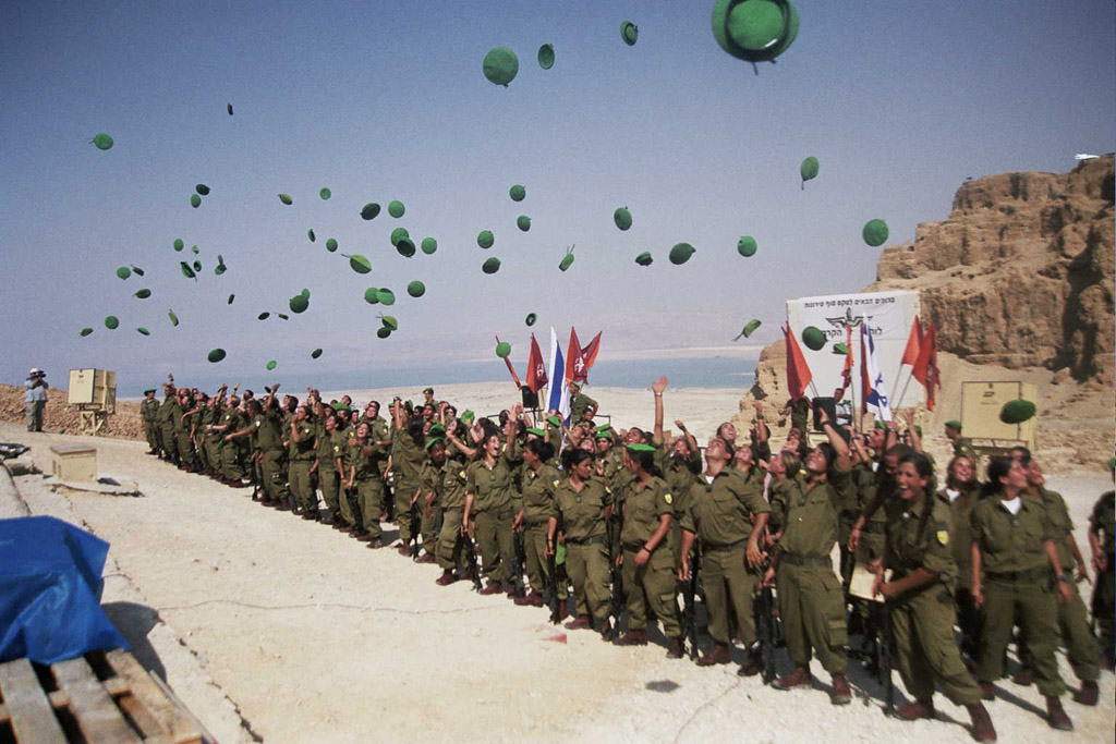 Ceremony of receiving berets in Masada. IDF Caracal battalion.